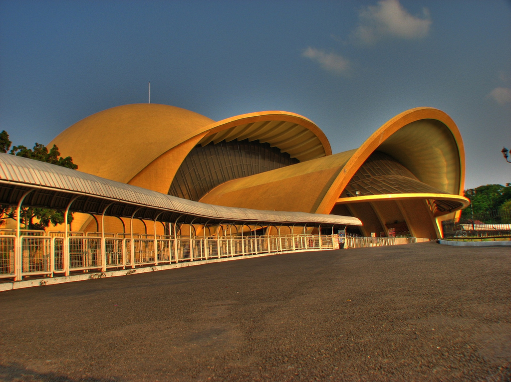 Keong Emas (Golden Snail), an IMAX theater located in Taman Mini Indonesia Indah.